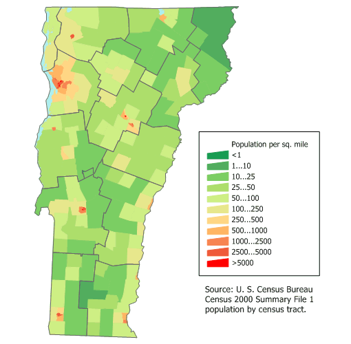 Vermont population density map based on Census 2000. See the data lineage for the process description.